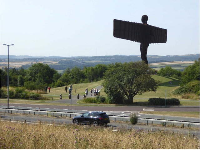 Seen from the Angel Cycleway on the opposite side of the Durham Road, A167.